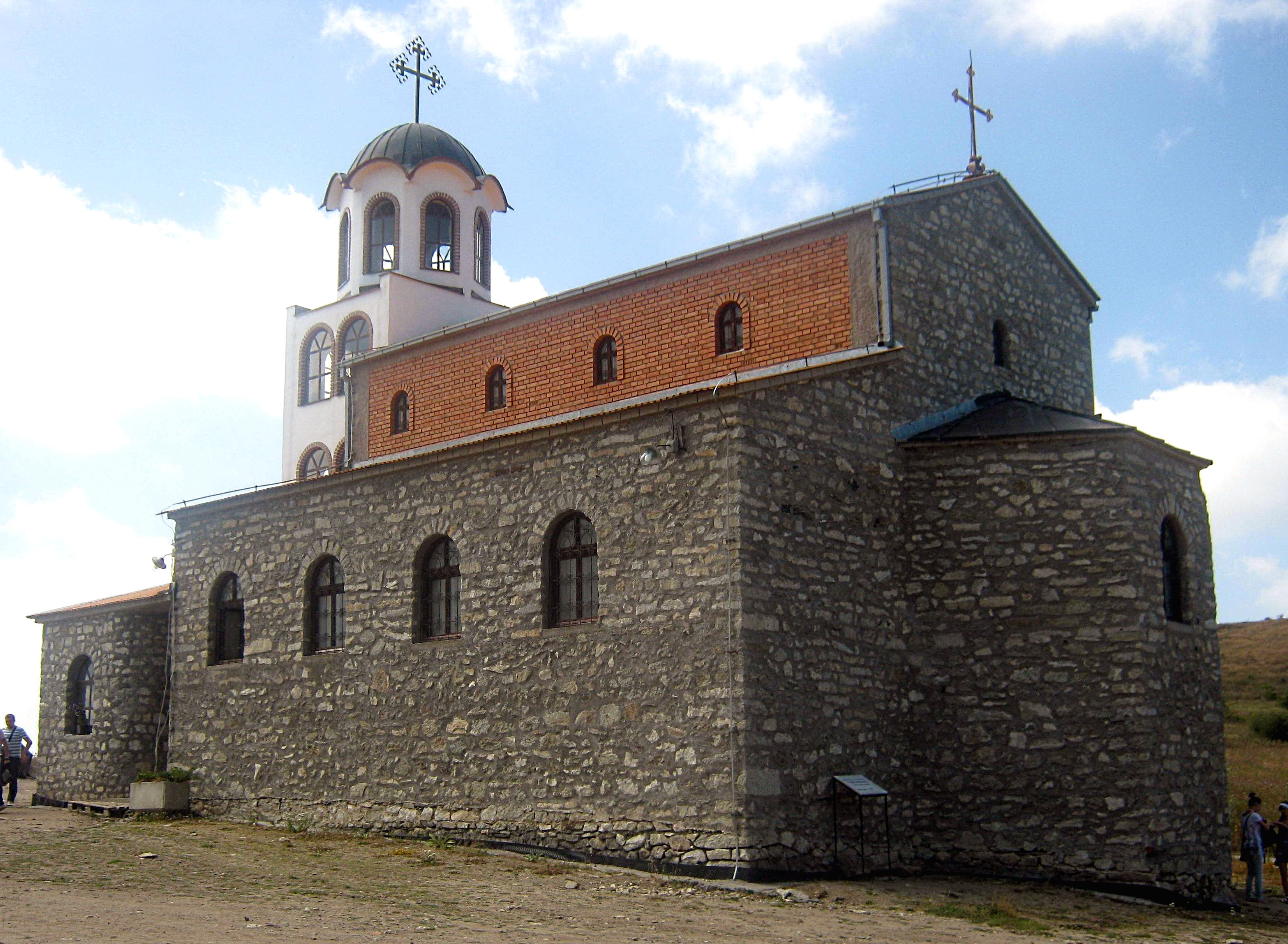 Church of the Transfiguration in Kruševo